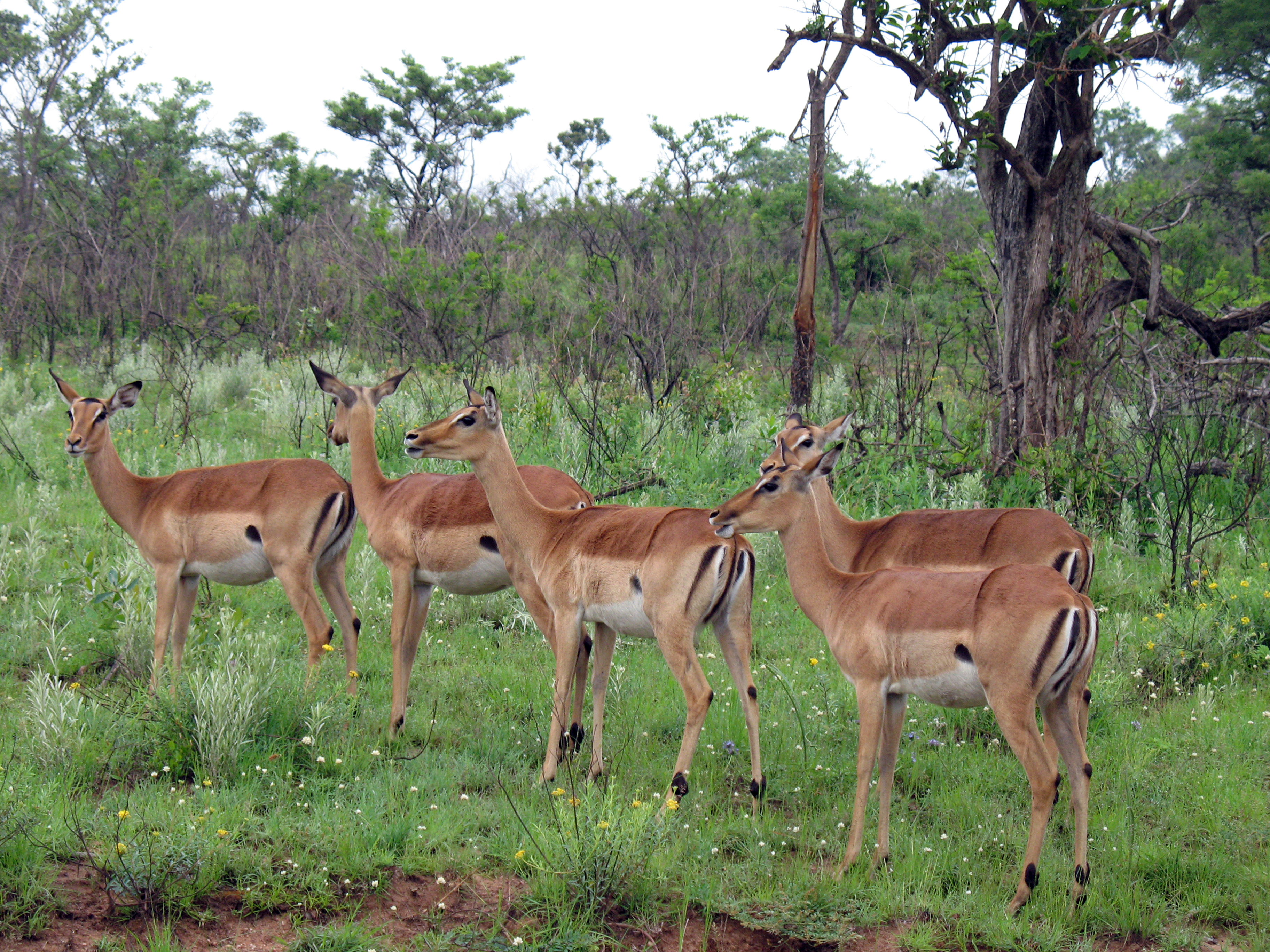 Kruger National Park: impalas (Aepyceros melampus)